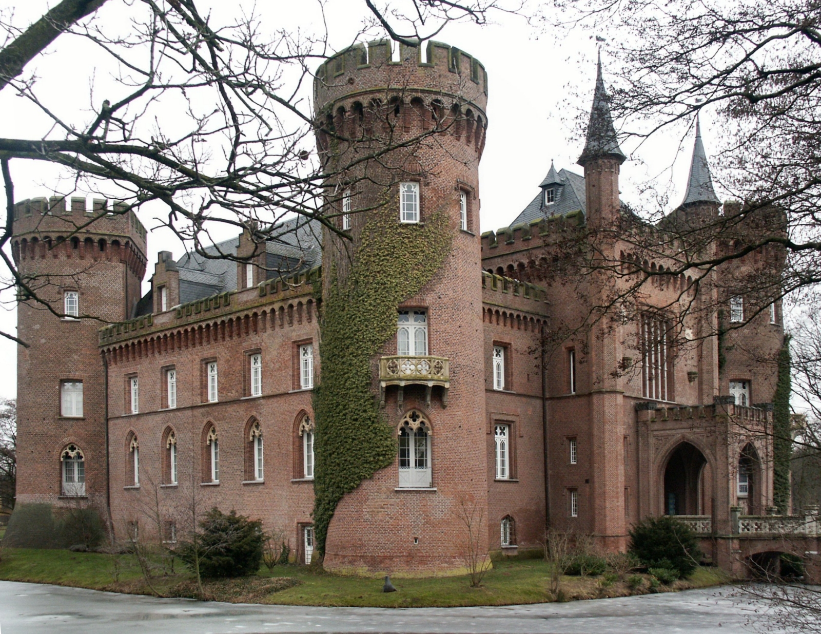 Castle Moyland (nearby Bedburg-Hau, Germany), view from south